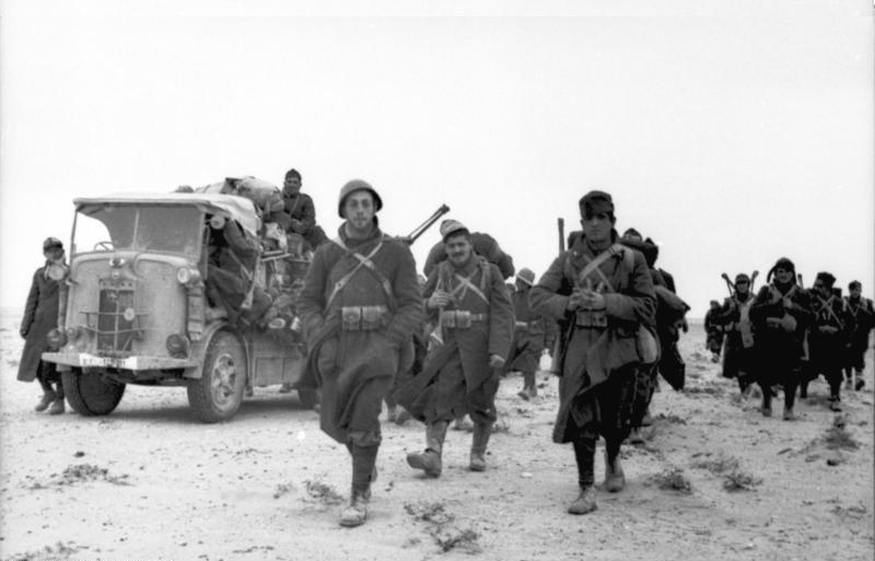 The truck is SPA CL 39